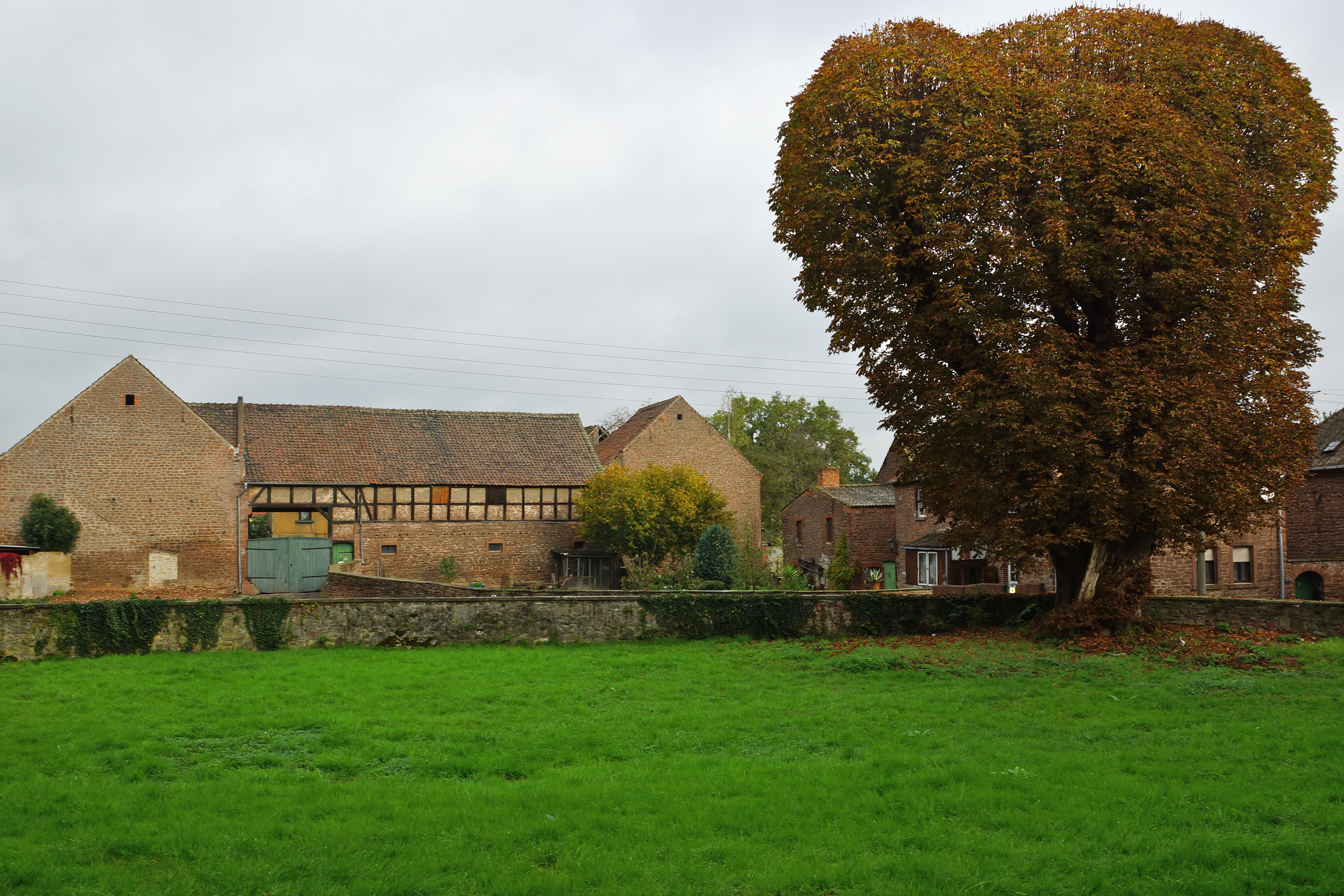 Altenhausen (Emden (Altenhausen)), Germany: Schoenduber Farm